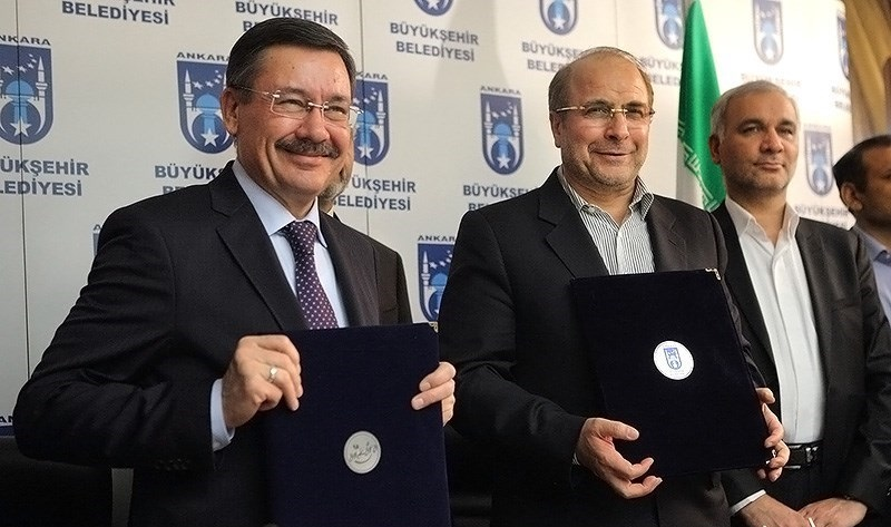 Mohammad Bagher Ghalibaf, Mayor of Tehran with Melih Gökçek, Ankara Mayor in the Ankara Municipality headquarters